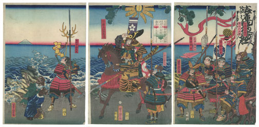 Kato Kiyomasa in Korea, on the distance can be seen Mount Fuji